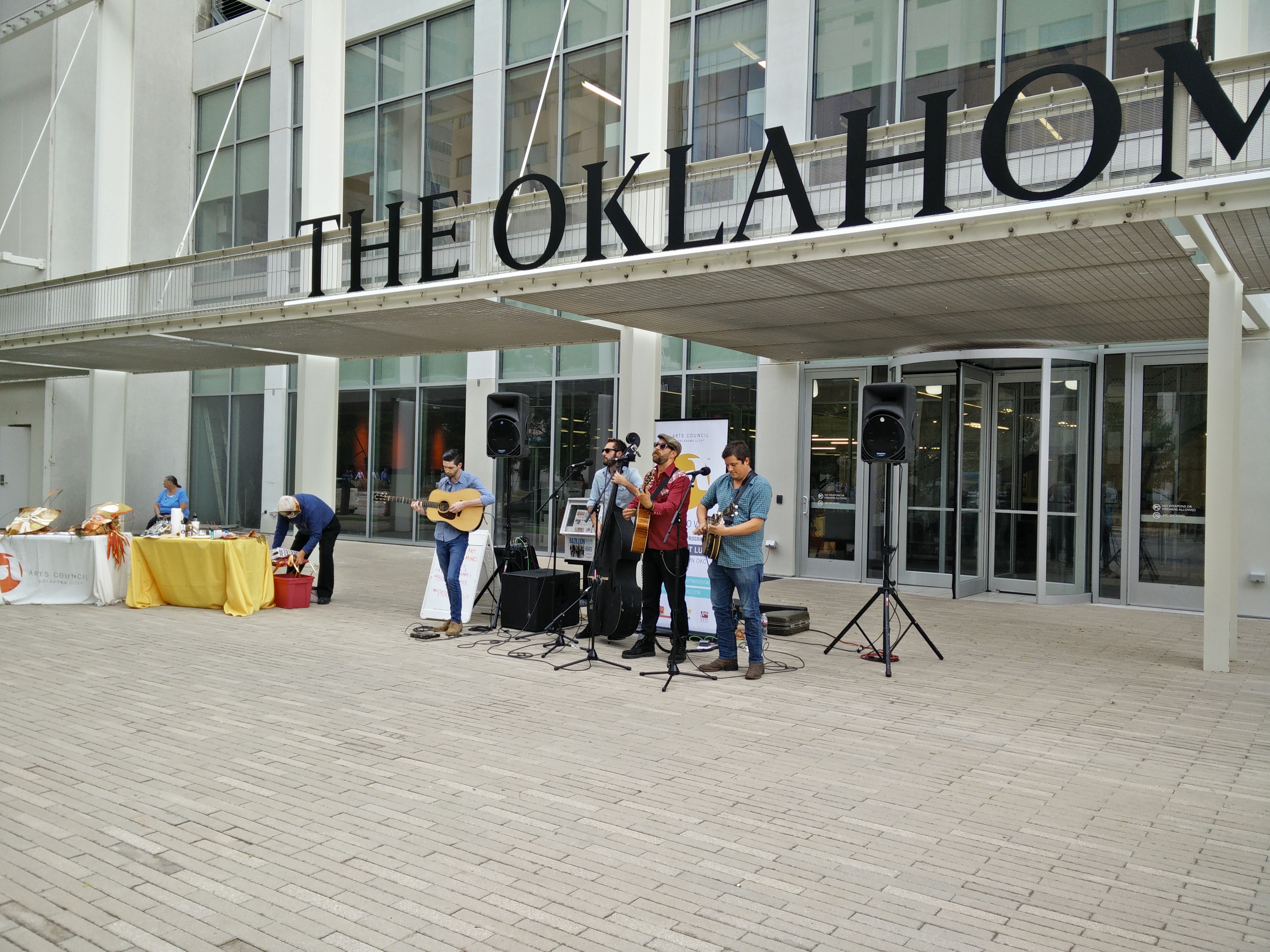 Exterior image of The Oklahoman's corporate offices as viewed from Robinson Ave. in Oklahoma City, Ok.